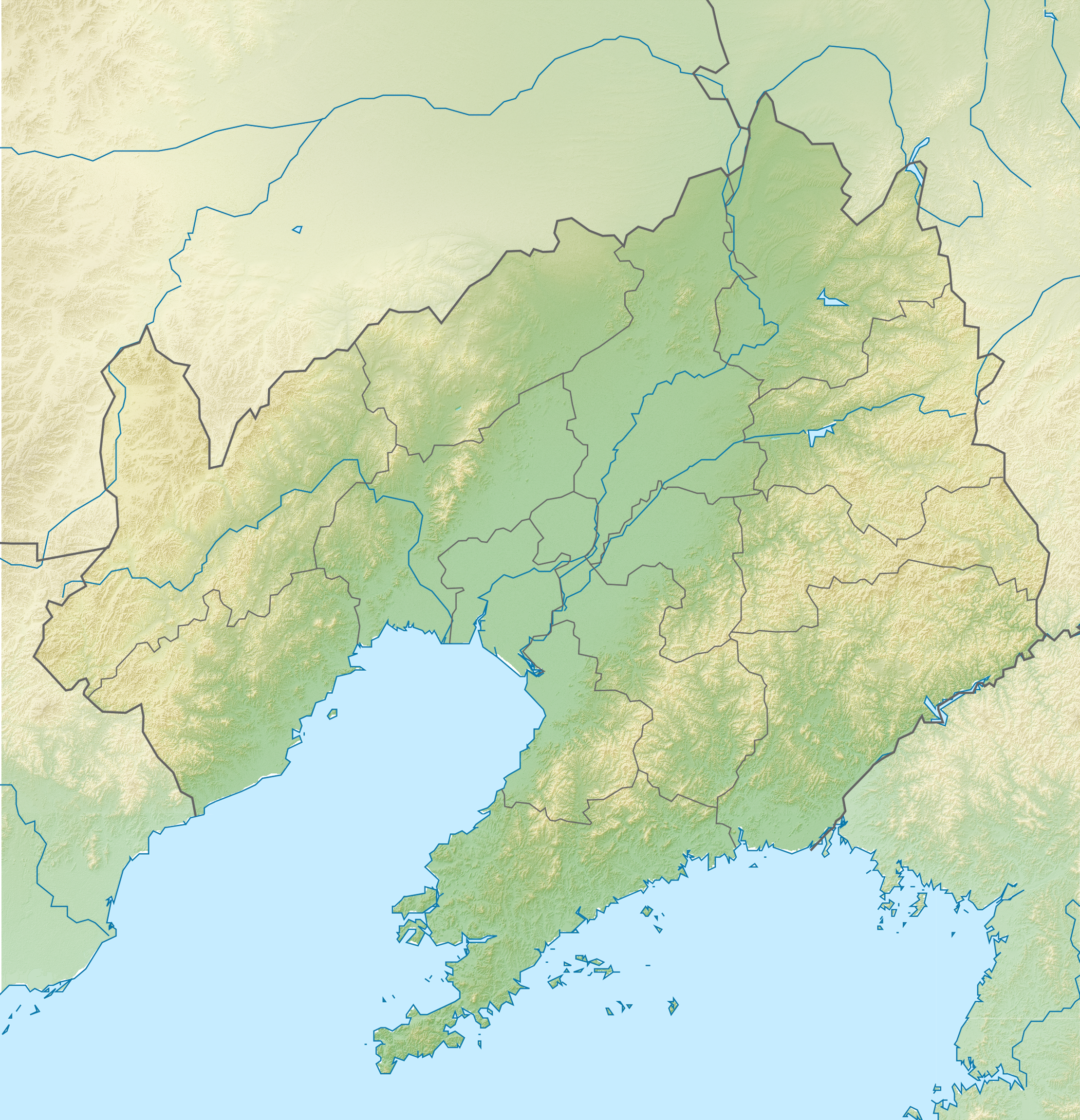 Location map of Liaoning, People's Republic of China Equirectangular projection, N/S stretching 141 %. True scale parallel: 45°00' N. Geographic limits of the map: N: 44.0° N S: 38.5° N W: 118.5° E E: 126.0° E